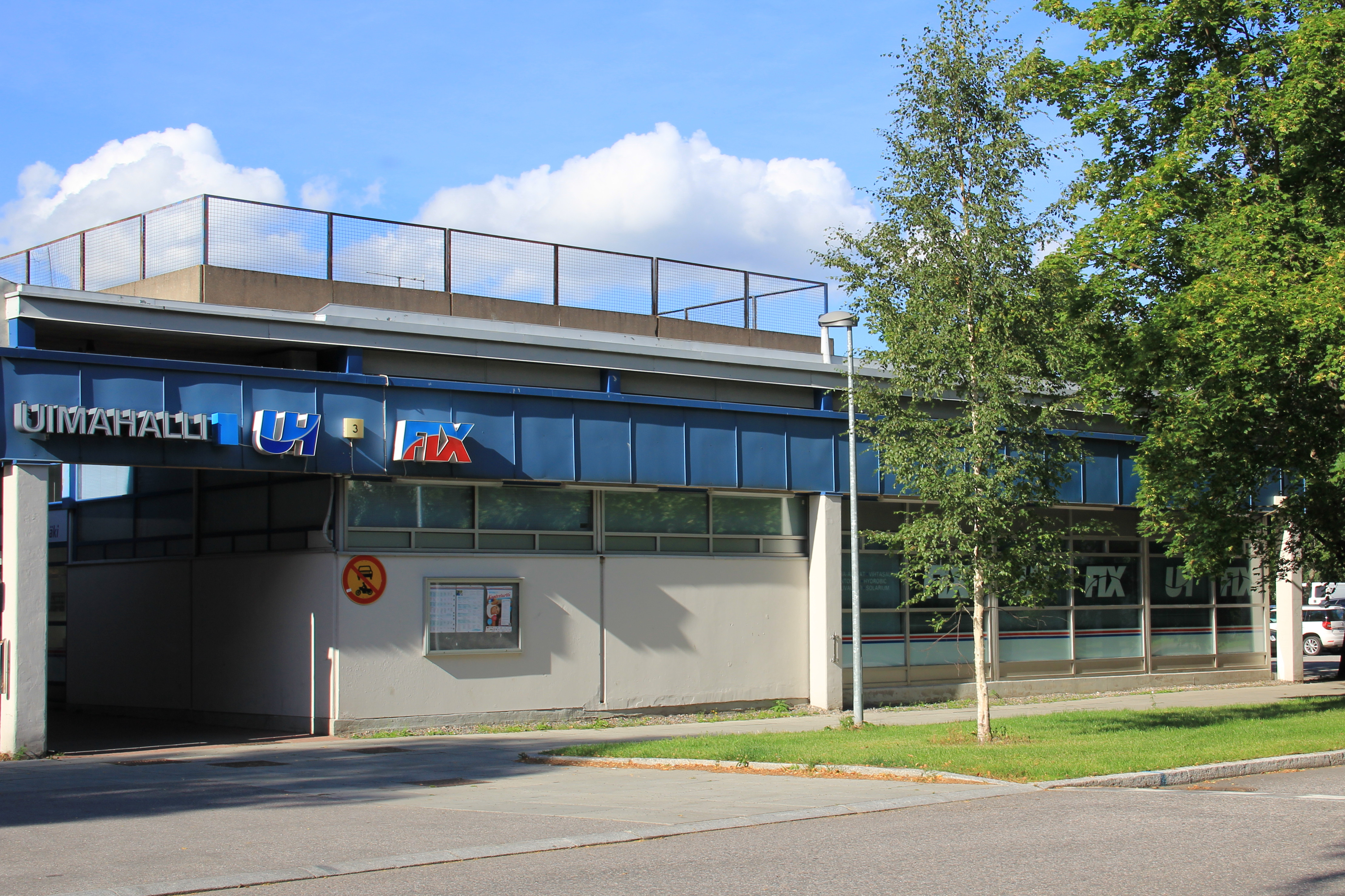 Siltamäki swimming hall entrance, Siltamäki, Helsinki, Finland.